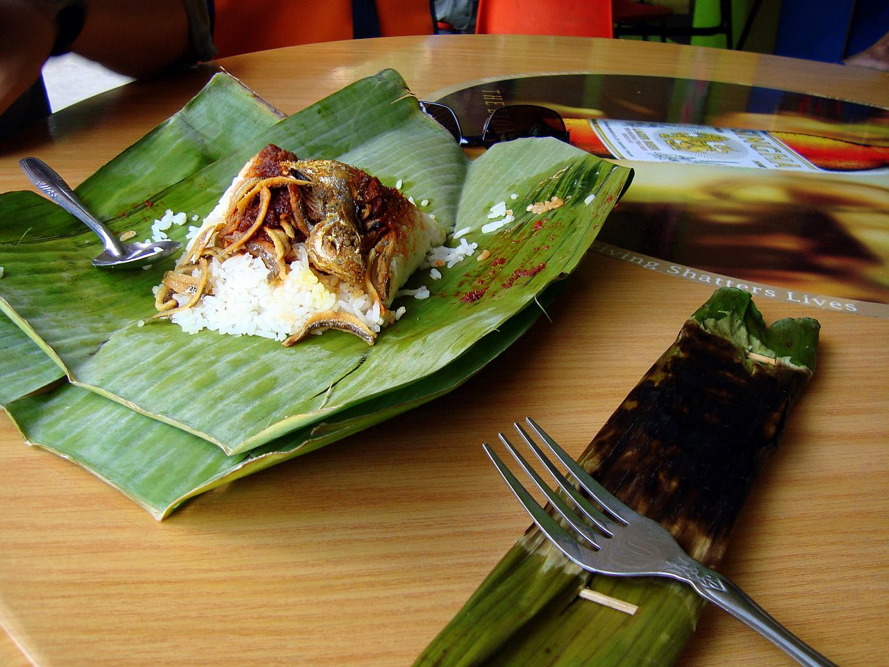 "Nasi lemak": rice cooked with coconut milk and served with sweet chili paste (sambal), a fried fish and fried dried small fry wrapped in a banana leaf. In the foreground is, still wrapped inside the palm leaf, "otak otak": a kind of spicy fish paté, grilled inside the palm leaf. Photo made in Singapore.